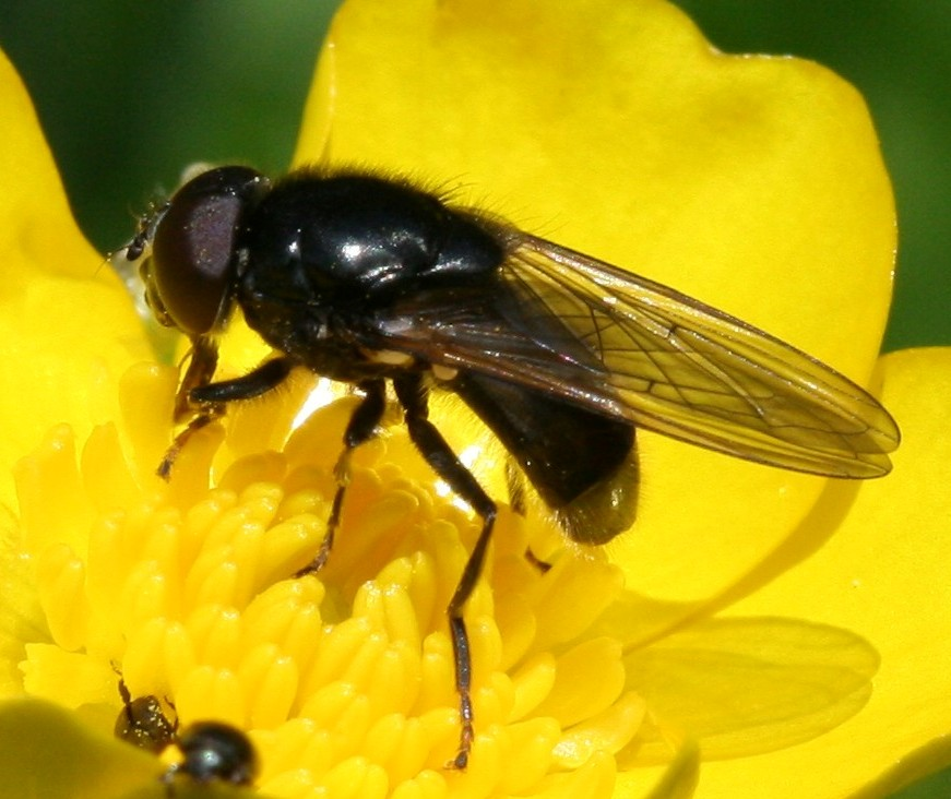 Cheilosia albitarsis - a species of hoverfly associated with buttercups